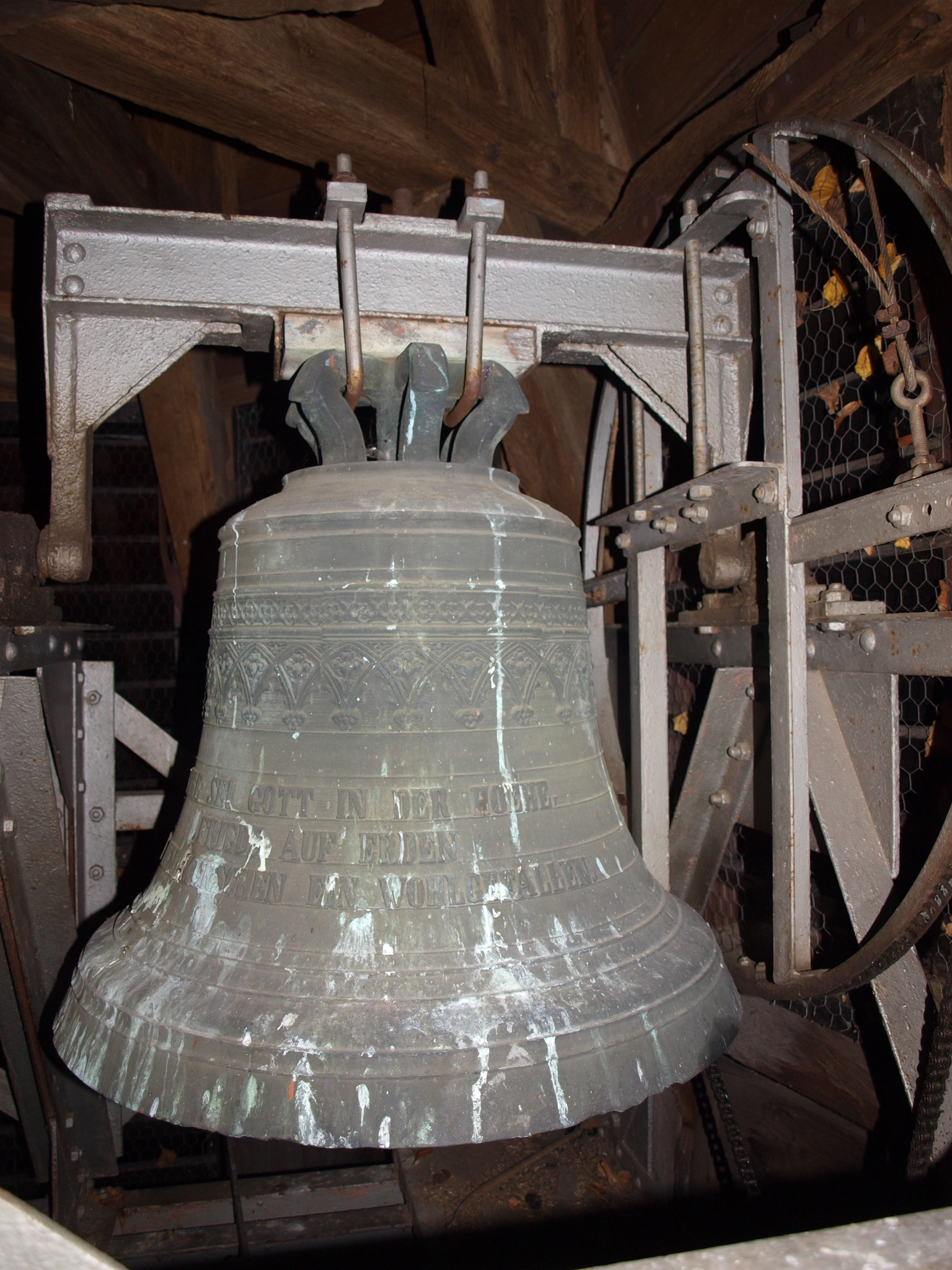 Bell of the protestant church of Obbornhofen, cast 1888 by Philipp Heinrich Bach in Windecken